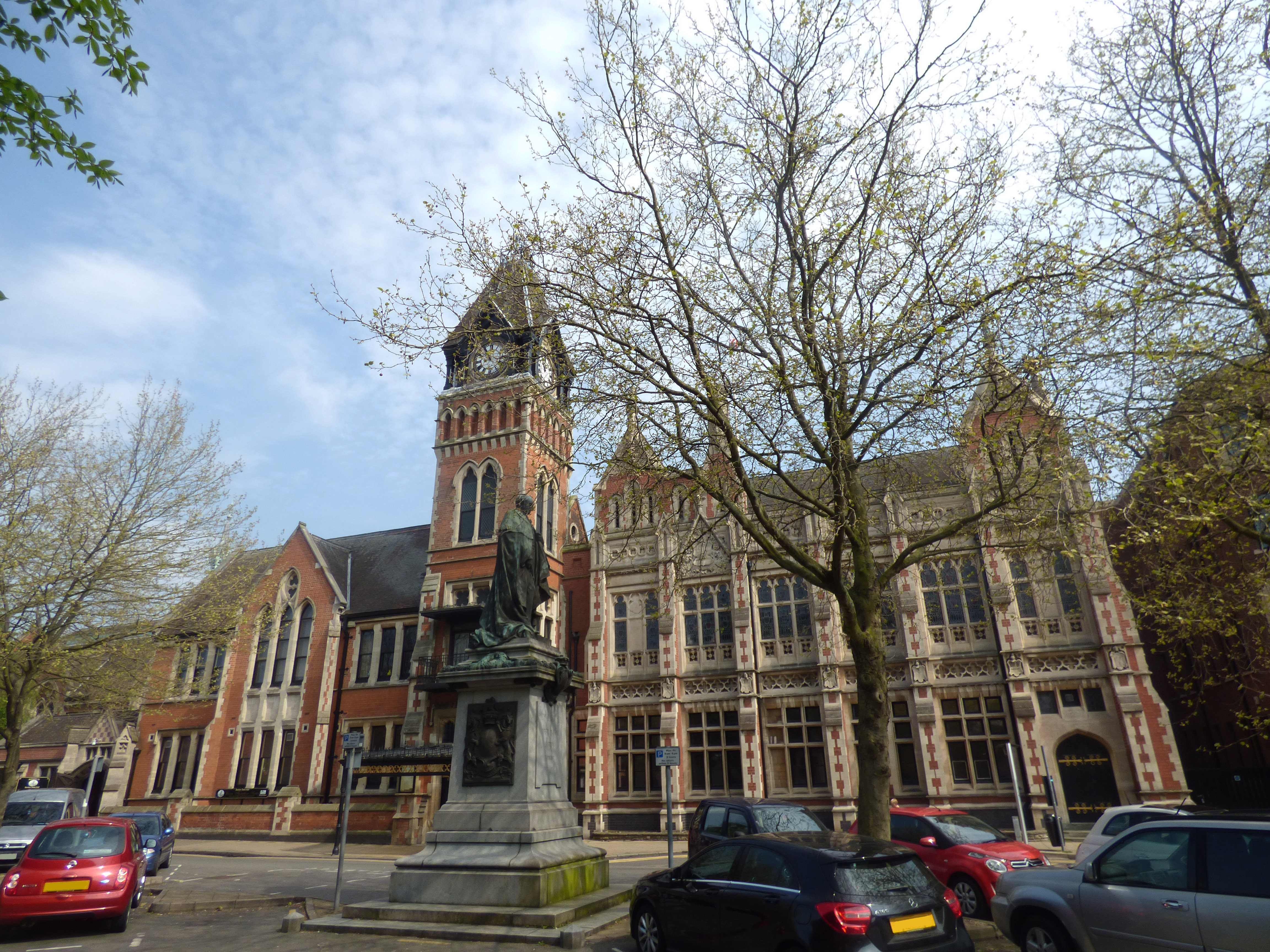 At King Edwards Place in Burton upon Trent. In the Shobnall area of Burton. Burton upon Trent Town Hall. The Town Hall is Grade II listed. Town Hall, Shobnall KING EDWARD PLACE 1. 5369 Town Hall SK 2323 SE 5/95 SK 22 SW 6/95 II GV 2. 1878 and later. Gothic style. Red brick with stone dressings. The original portion built by Reginald Churchill for Michael Thomas Bass. 2 storeys with gables. Each bay has a 3-light window in foil-headed stone surround with mullions and transom, the lights with foil heads and quatrefoil panels below; elaborate decoration with bands of blind quatrefoils at 1st storey and to parapet; coped gabled and stone piers with pnnacles supporting figures of lions bearing standards. Later portion, on left-hand side, is of 1894 and in similar style, with clock tower and doorway below in stone surround and with wrought iron porte-cochere. 2-storeyed wing to left is of 3 bays, each with 3-light stone mullioned window, the centre bay projecting and with gable and angled buttresses. Elaborate single-storeyed wing on left-hand side containing Concert Hall has various projecting gabled bays with pointed arched windows and an arched doorway to right. Tiled roofs. Listing NGR: SK2400123438 The statue is Grade II listed Statue of Michael Arthur Bass, Shobnall KING EDWARD PLACE 1. 5369 Statue of Michael Arthur Bass SK 2323 SE 5/96 II GV 2. 1911. Statue of the 1st Baron Burton (1837-1909) by F W Pomeroy. A conventional life-sized bronze statue on a stone plinth. Listing NGR: SK2400023405 This text is a legacy record and has not been updated since the building was originally listed. Details of the building may have changed in the intervening time. You should not rely on this listing as an accurate description of the building. Source: English Heritage Listed building text is © Crown Copyright. Reproduced under licence.